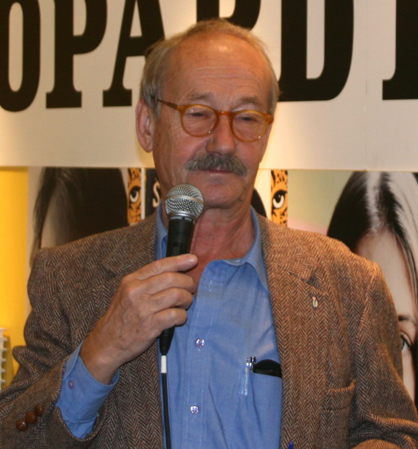 Gösta Ekman d.y., at Göteborg Book Fair.